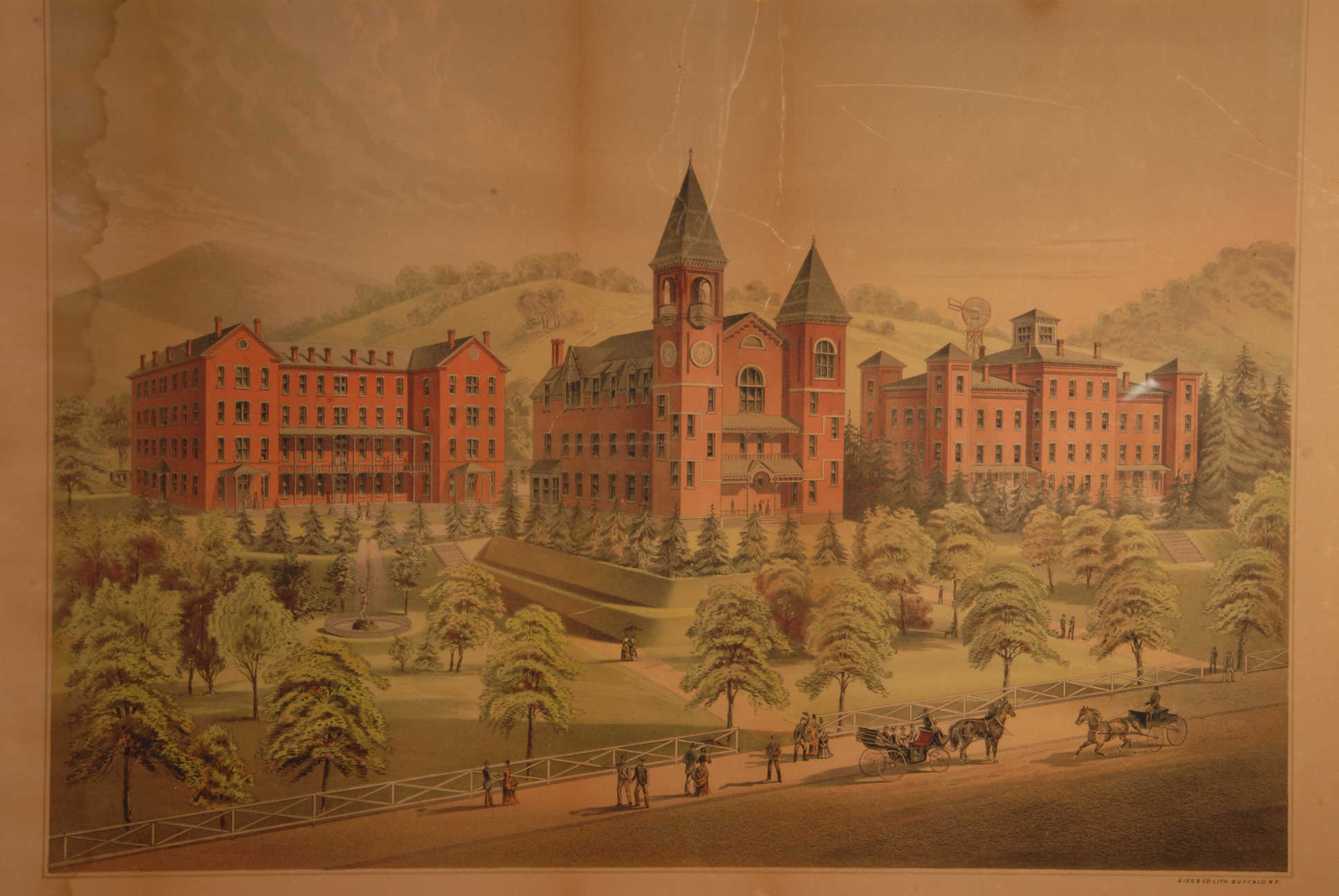 Color Lithograph - Mansfield State Normal School 1880's (now Mansfield University of Pennsylvania)